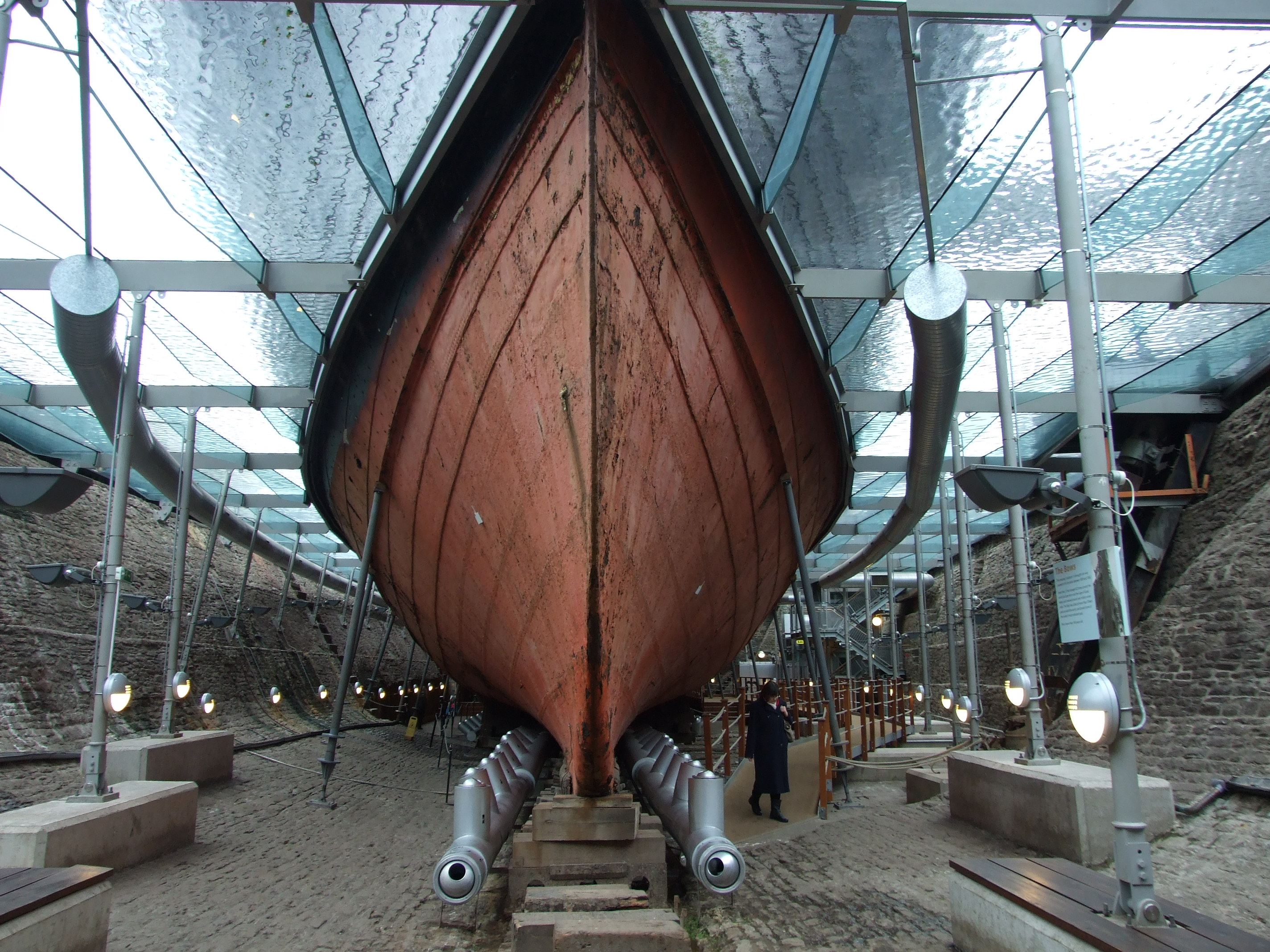 The prow of Brunel's immense SS Great Britain preserved at Bristol.